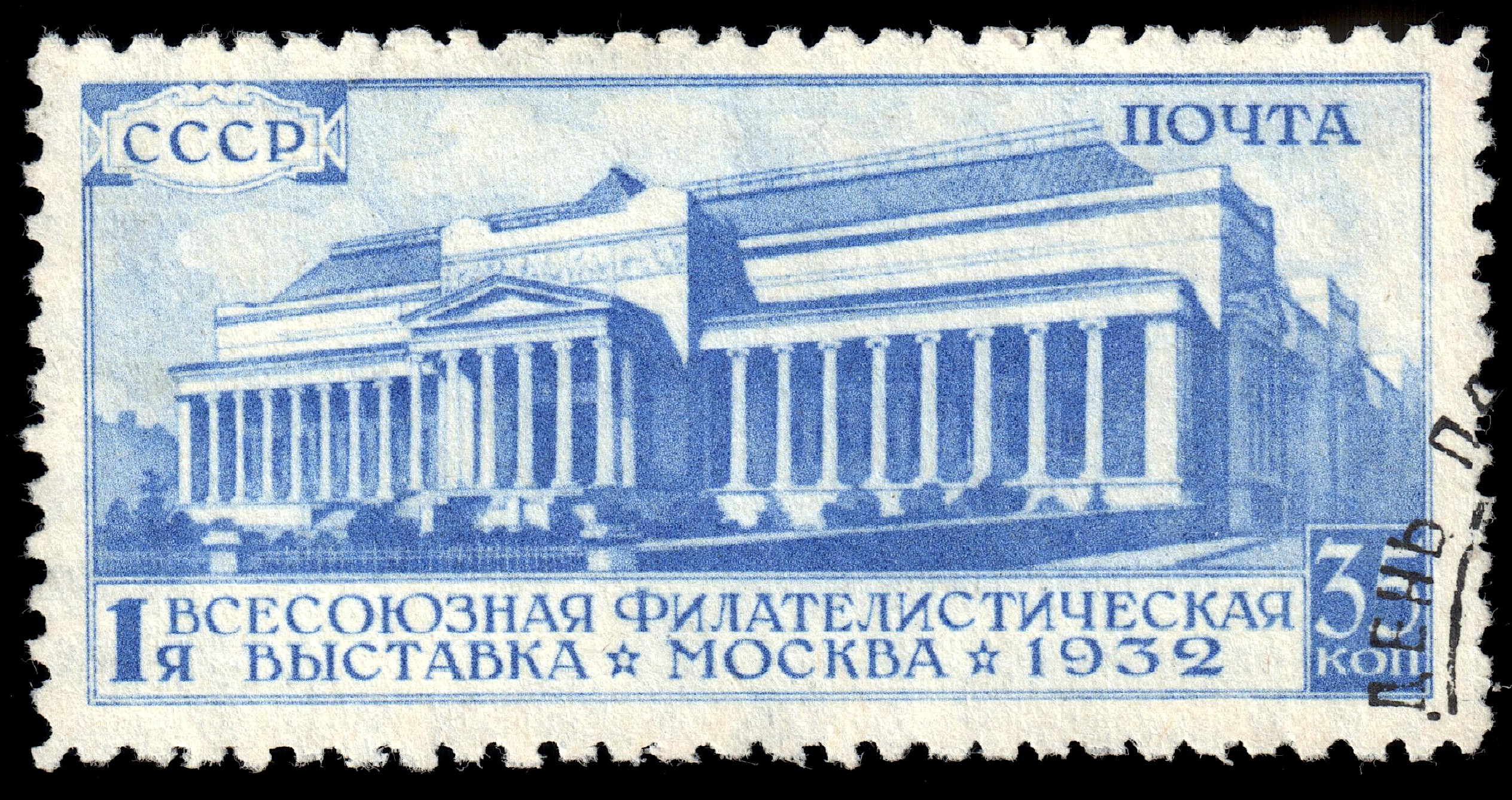 USSR 1932 35kop blue, used. 'Stamp Exhibition'. Catalogue: SC. 486, Mi. 423, CPA 404